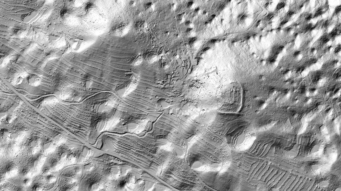 Lidar image of Starod, Slovenia